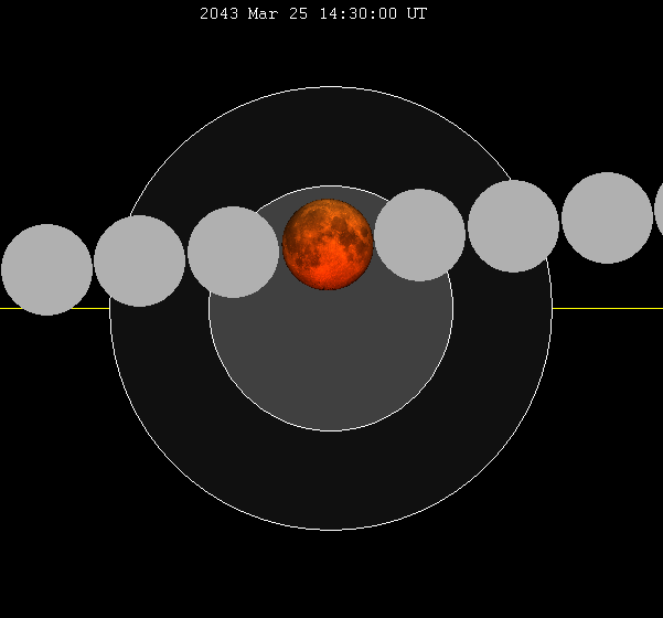 March 2043 lunar eclipse chart of moon's path through the earth's shadow. thumb